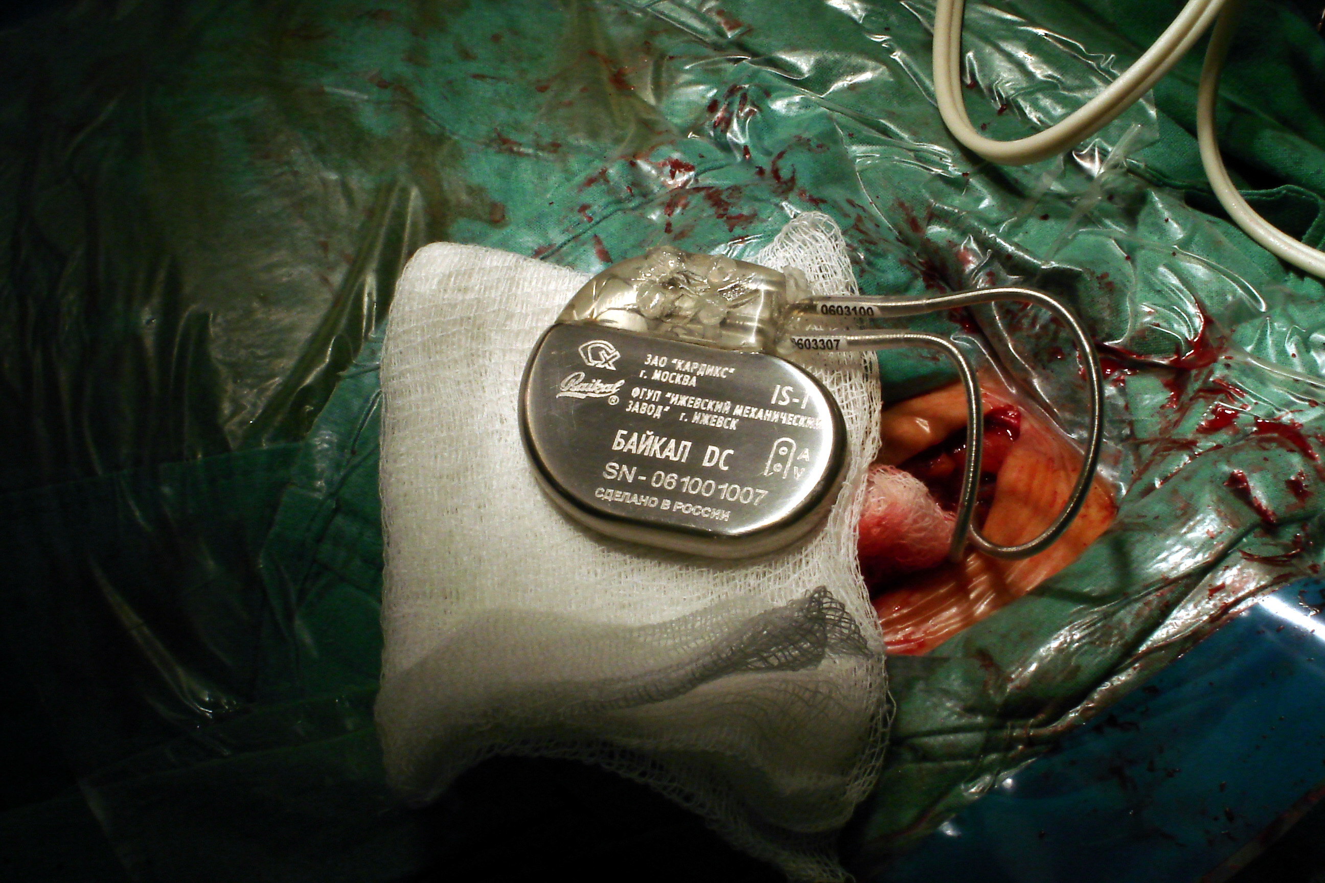 Baikal DC implantation in Vishnevsky hospital. Surgeon I.Mayorov.